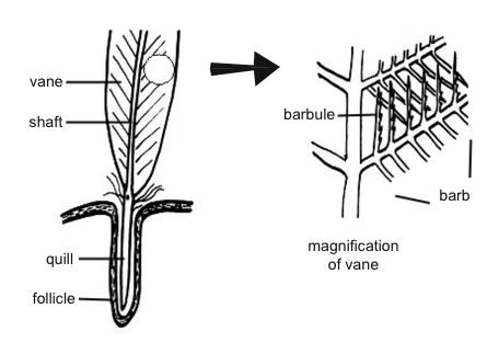 By Ruth Lawson. Otago Polytechnic.